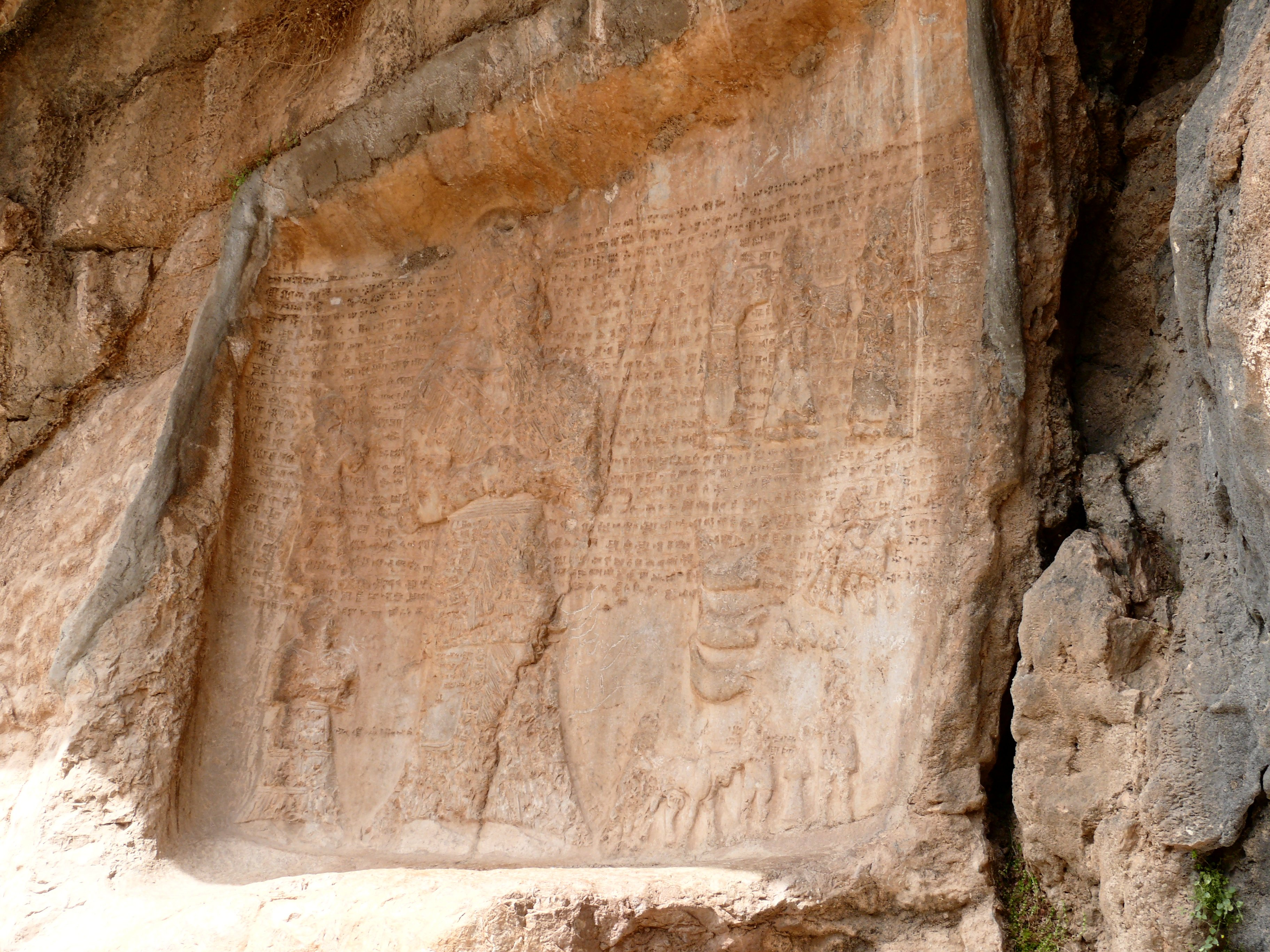 Elamite rock relief said “Kul-e farah I” depicting a religious office with animal sacrifice with representation of Priest, king, and prayers. An Elamite inscription is visible covering almost all the relief. VIIIth to VIIth century BCE. Site of Kul-e Farah, city of Izeh, Khouzestan province, Iran